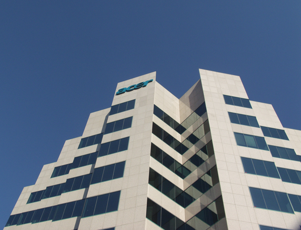 Offices of Acer America, subsidiary of taiwanese based, multinational PC maker, Acer Inc.